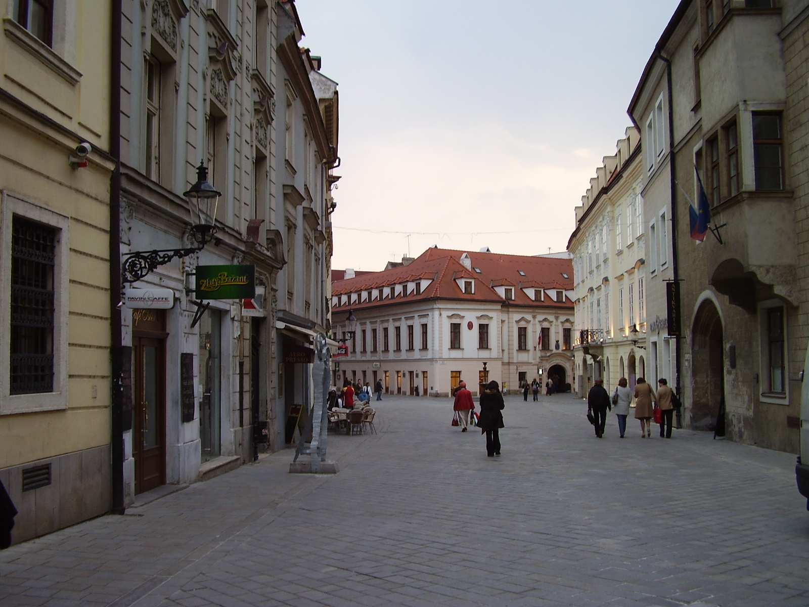 Bratislava city centre